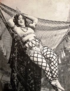 French Jewish stage performer Marie Royer, who named herself Sarah Brown after Sarah Bernhardt. The risque nature of her costume earned her problems with the authorities. She had red hair, and was known for her beauty despite an otherwise ordinary appearance. She became the muse and lover of some French artists, and died young of tuberculosis. She was also known for her fiery temper and eccentric, yet fun-loving character.